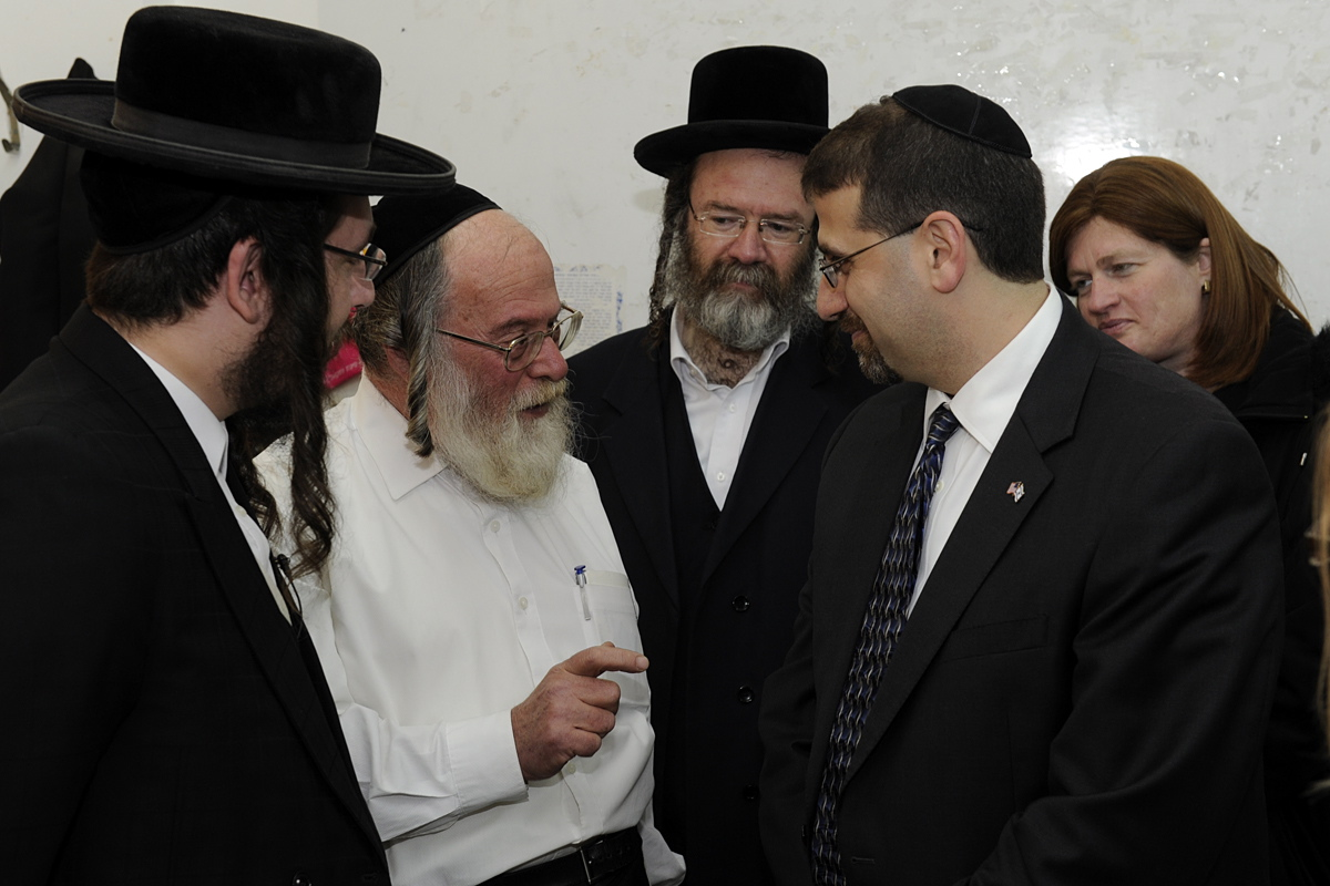 The Haredi “Consul” Rabbi Matityahu Cheshin invited Ambassador Shapiro and his wife, Ms. Julie Fisher, for an insightful tour of the ultra-Orthodox neighborhood of Meah She’arim, one of the oldest Jewish communities in Jerusalem. During the tour the Ambassador and his wife were able to witness the hustle and bustle of pre-Passover preparations. The tour included a rooftop view from the great Synagogue of Breslov, a walking tour of the Batei Ungarim (Hungarian houses), and a visit to a Passover lesson at a local elementary school. Ever wondered where Matzo comes from? At a local Matzo bakery, the Ambassador himself had a chance to hand grind some of the meal and to witness the thin dough shuffled in and out of the oven. The tour proceeded to the famous Challah bakery of Lendner, where the Ambassador and Ms. Fisher plucked challah out of the oven to discover that they spelled out “U.S.A.” We concluded the tour at the great synagogue of Belz, a centerpiece of the Belzer Hasidim community, which can seat 6,000 in its main sanctuary.